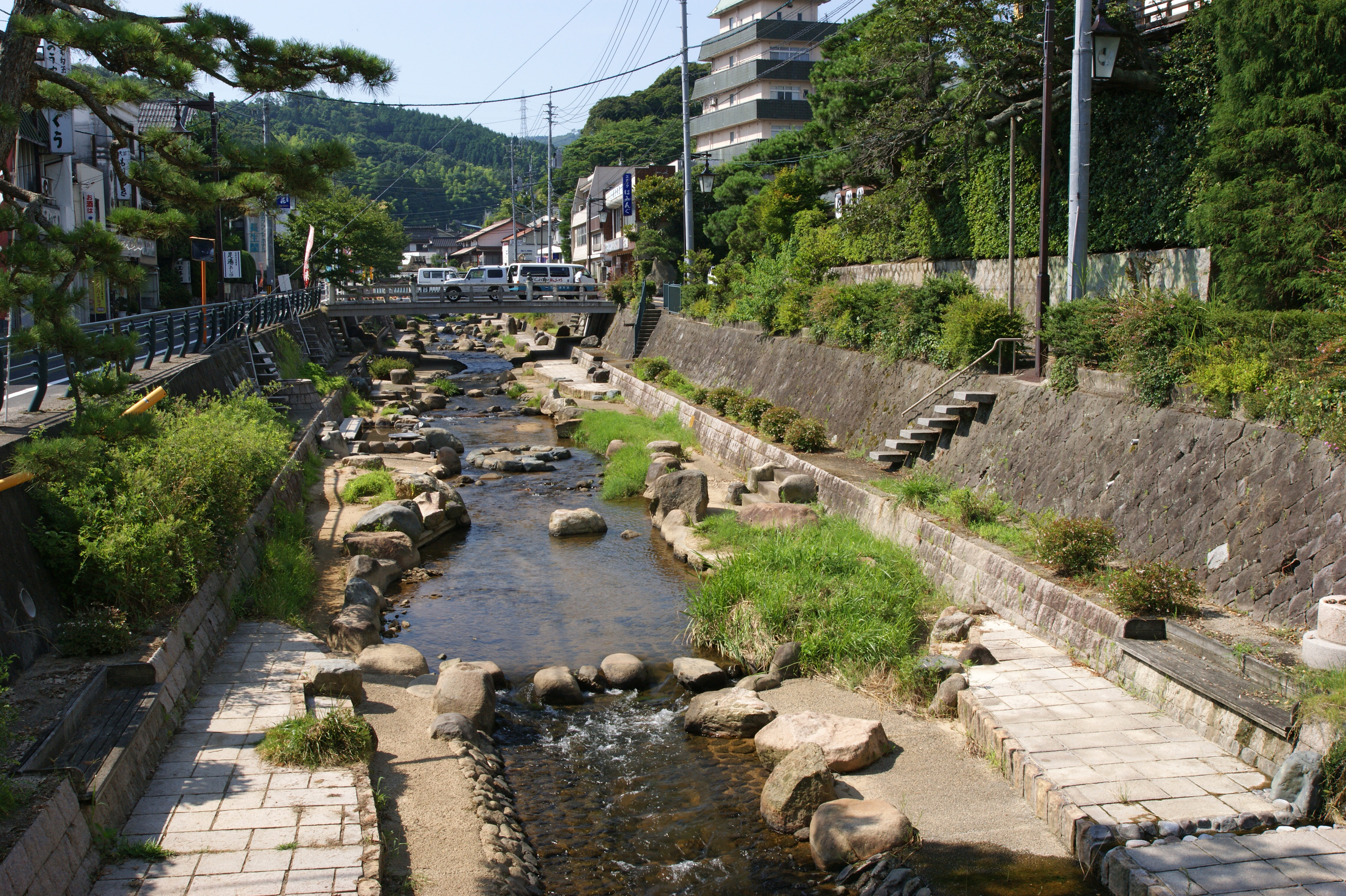 Tamatsukuri Onsen in Matsue, Shimane prefecture, Japan